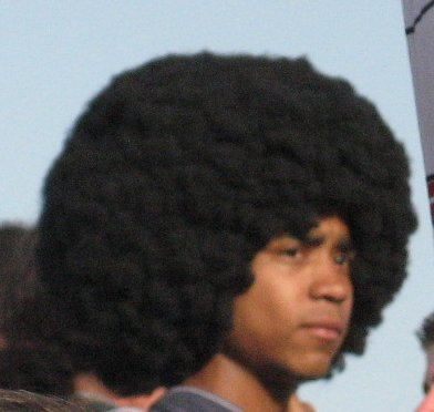 A guy with afro haircut style